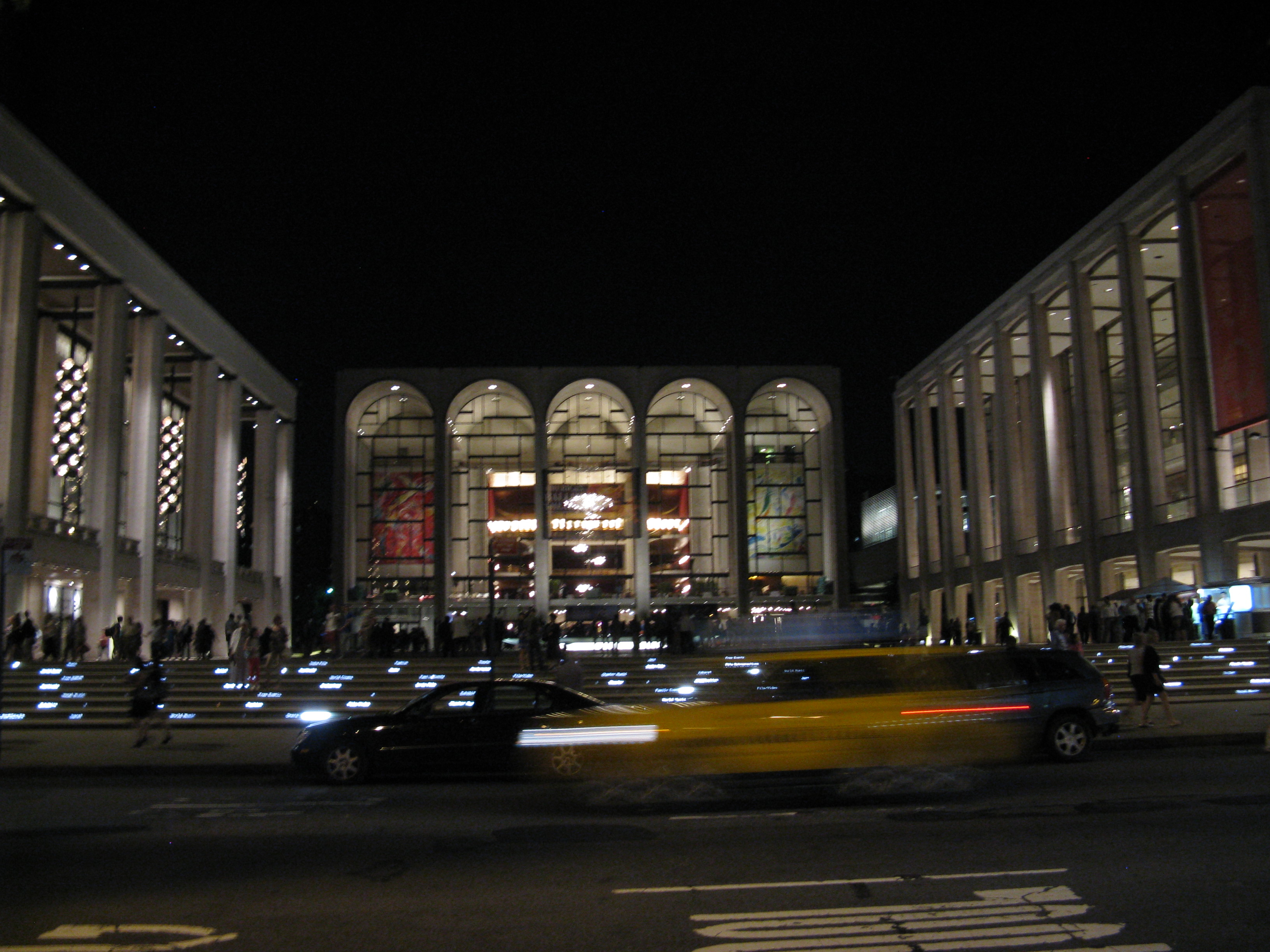 Lincoln Center for the Performing Arts.